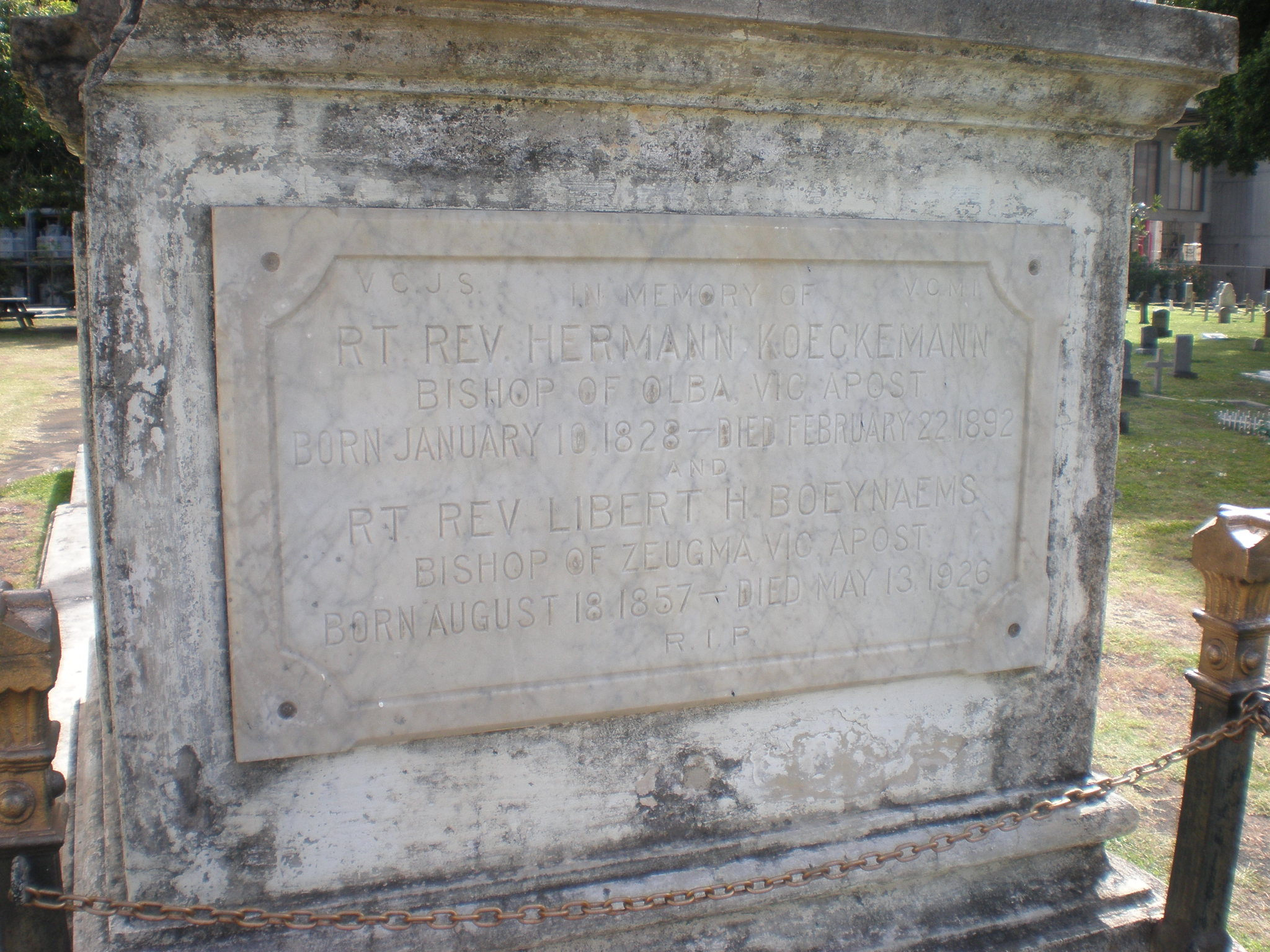 Grave marker for Bishops Koeckemann and Boeynaems, Vicars Apostolic, Honolulu Catholic Cemetery, King St.: "In memory of Rt. Rev. Hermann Koeckemann, Bishop of Olba, Vic. Apost., born January 10, 1828, died February 22, 1892, and Rt. Rev. Libert H. Boeynaems, Bishop of Zeugma, Vic. Apost., born August 18, 1857, died May 13, 1926, R.I.P."